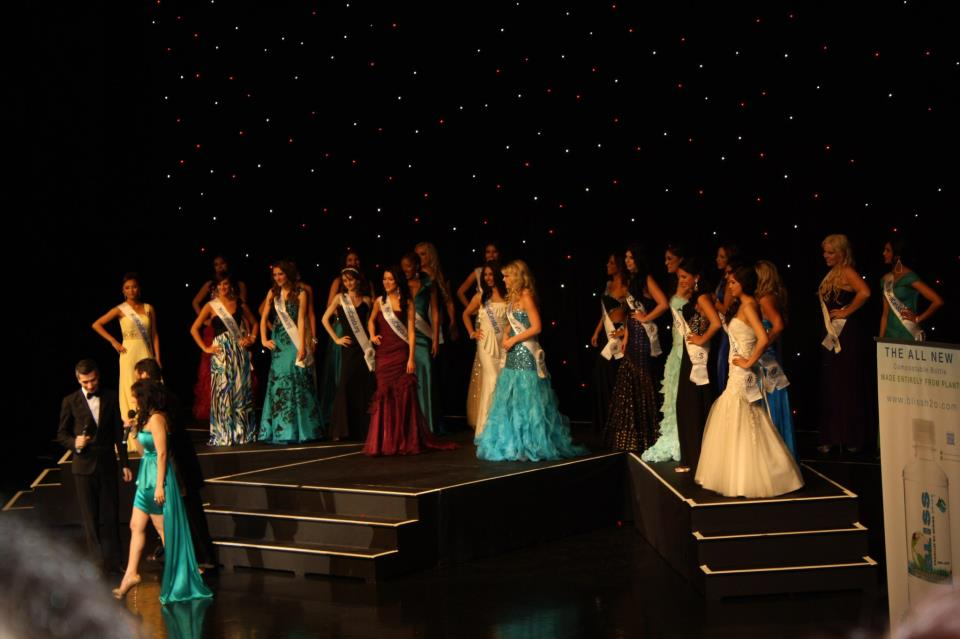 The Miss World Canada 2012 Grand Crowning Gala